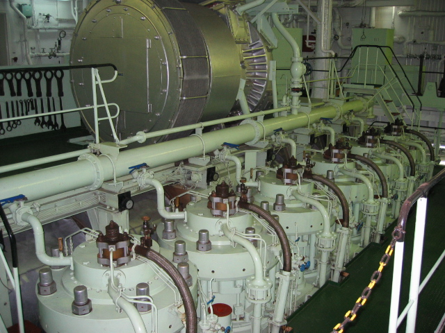 The main engine of a Container ship